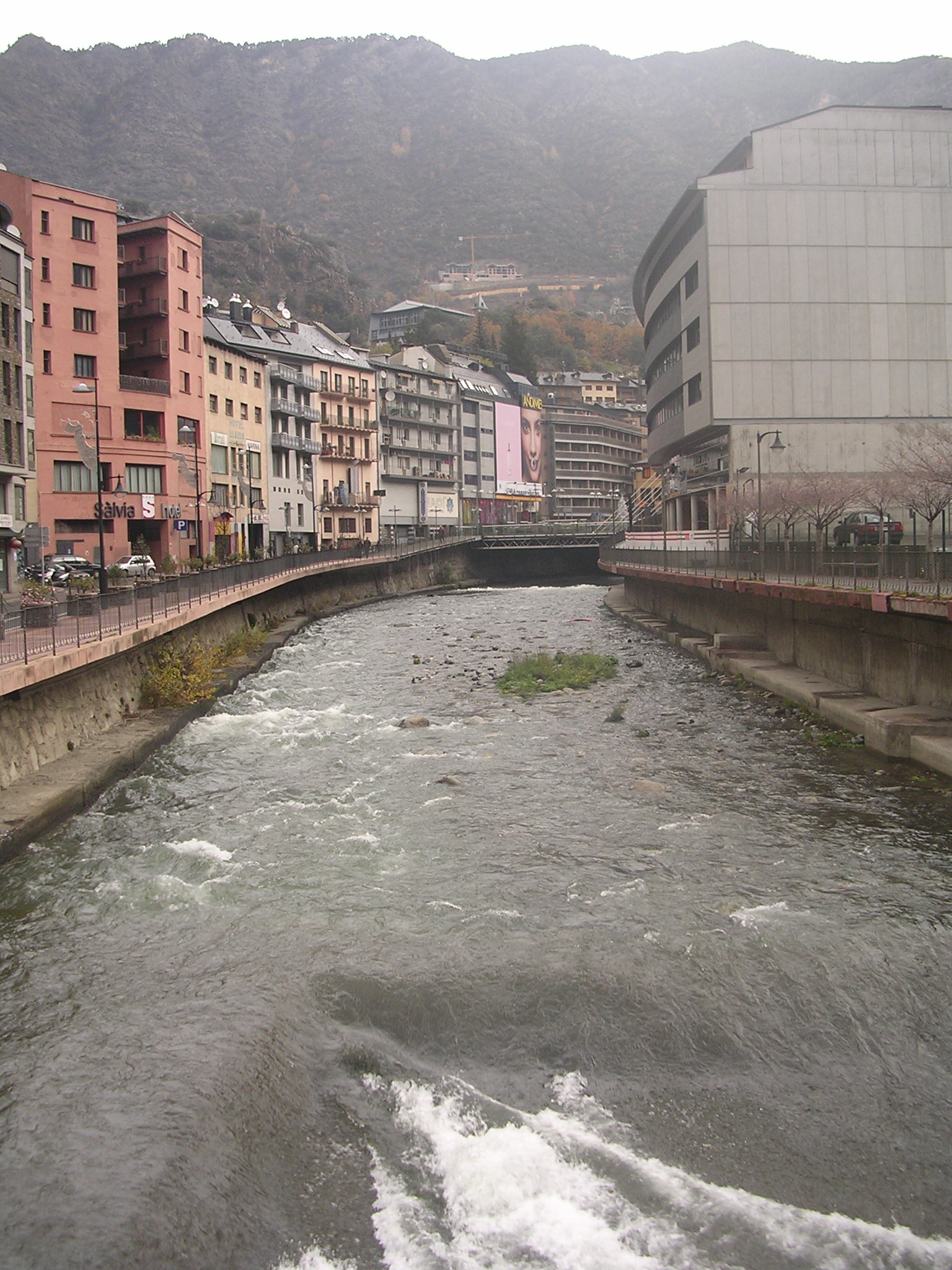 The Gran Valira passing through Andorra la Vella